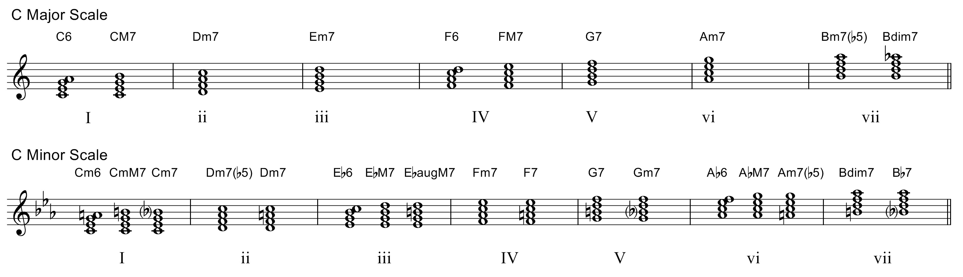 In four voice sectional harmonization, basically these four-note chords are available. Also tensions are used.